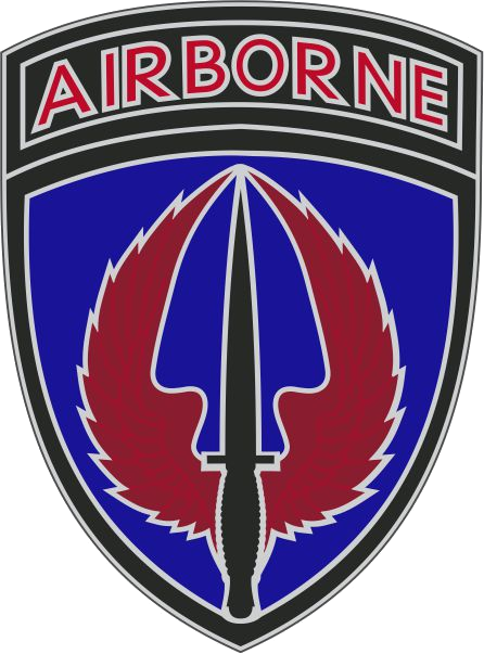 U.S. Army Special Operations Aviation Command combat service identification badge